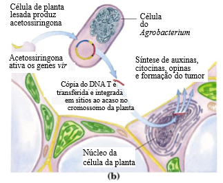 Formação desses tumores é o resultado de um processo natural de transferência de genes de Agrobacterium spp. para o genoma da planta infetada